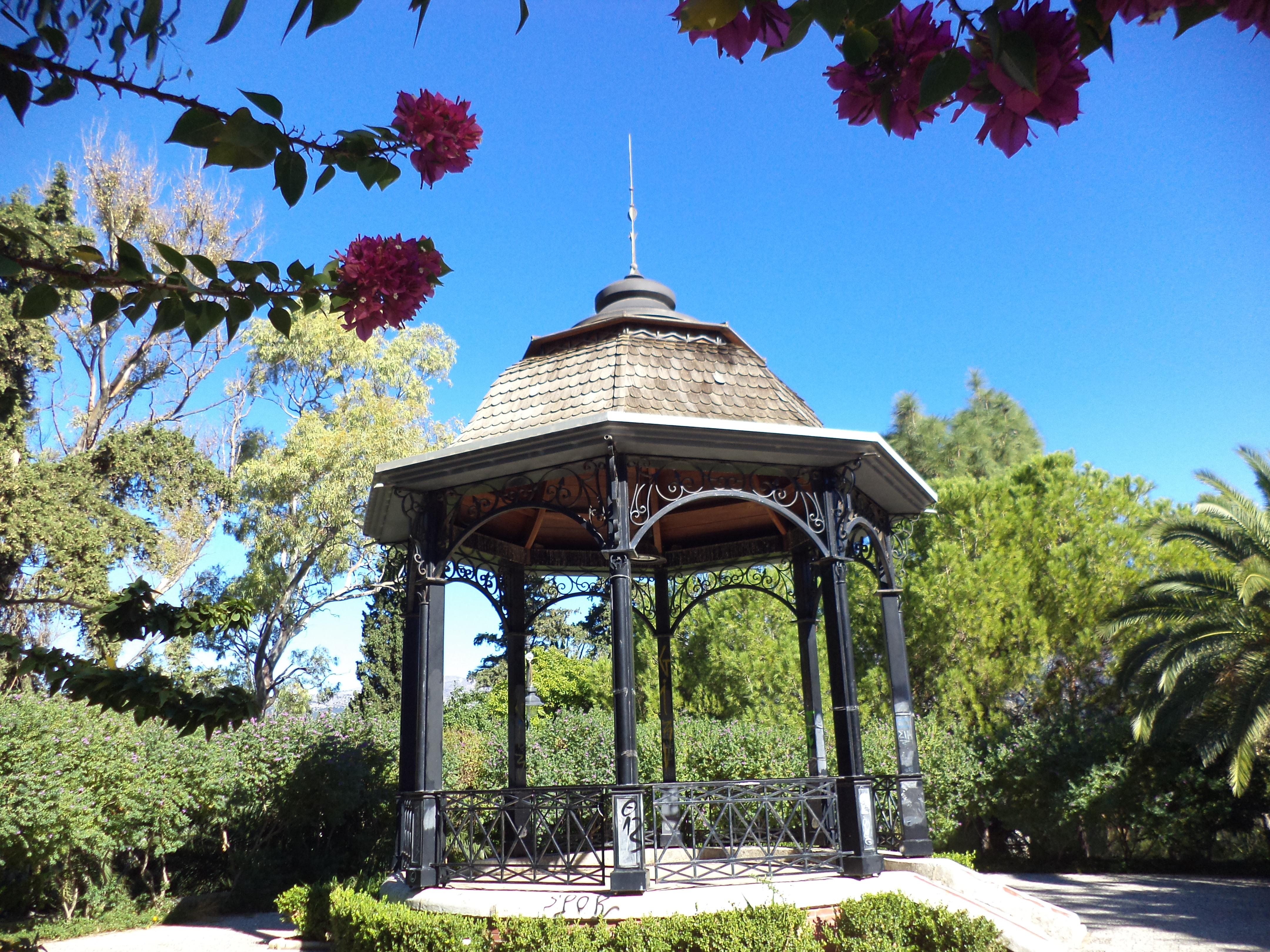 Pavillon in the Napier-Gardens, Argostoli